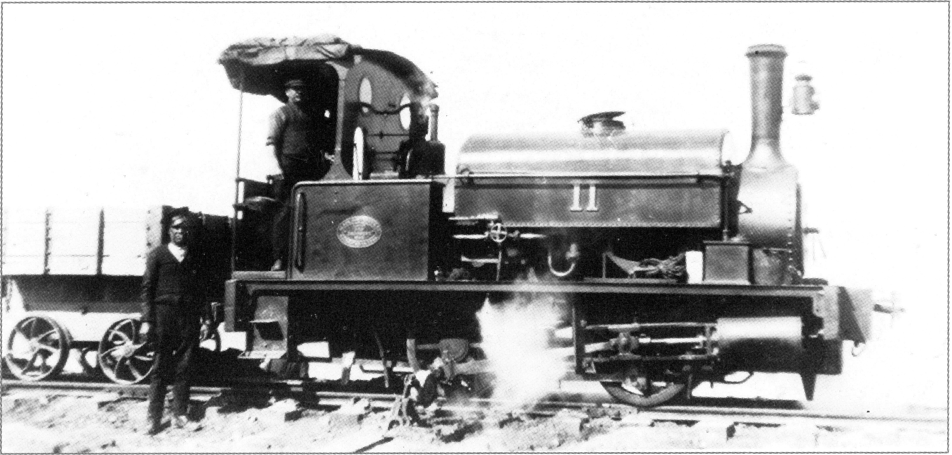 Table Bay Harbour Board 0-4-0ST no. 11 of 1895